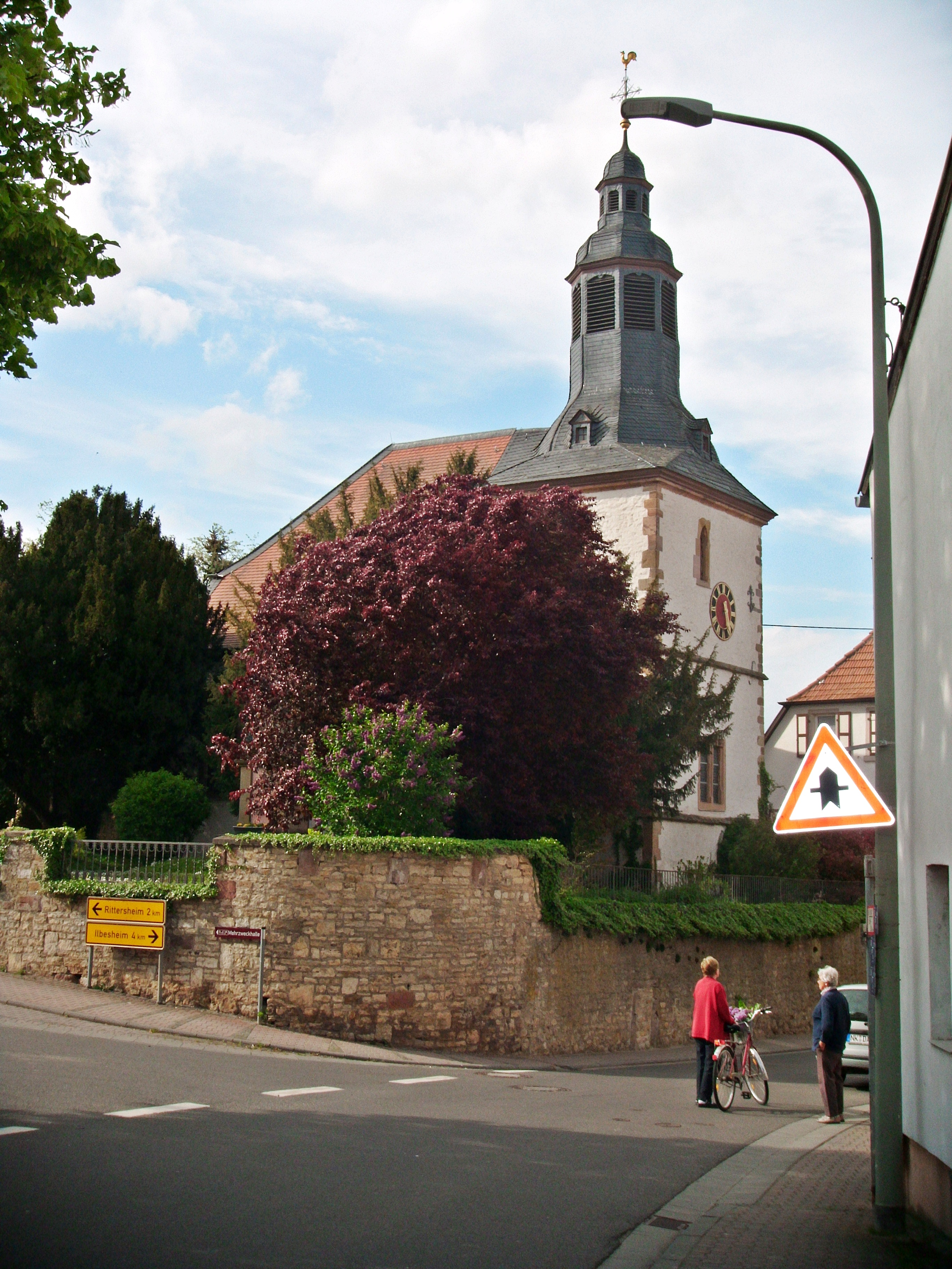 Gauersheim Protestantische Kirche